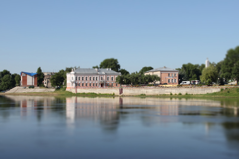 Loeu. Central part of the town, riverside (Dnjapro) Беларуская (тарашкевіца): Лоеў. Цэнтральная частка, бераг ракі Дняпро.